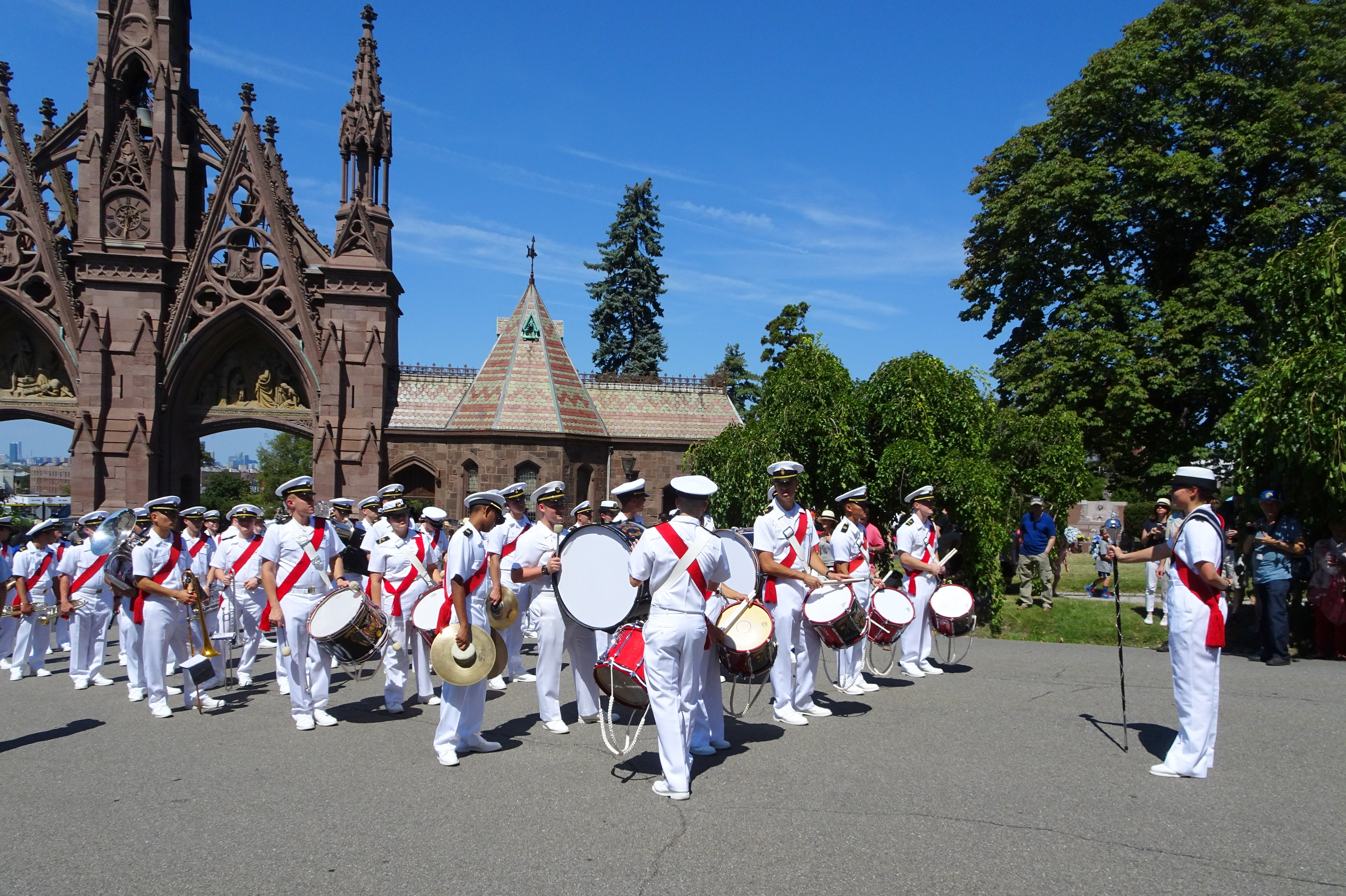 Looking north as USMMA band prepare to march on a sunny midday.